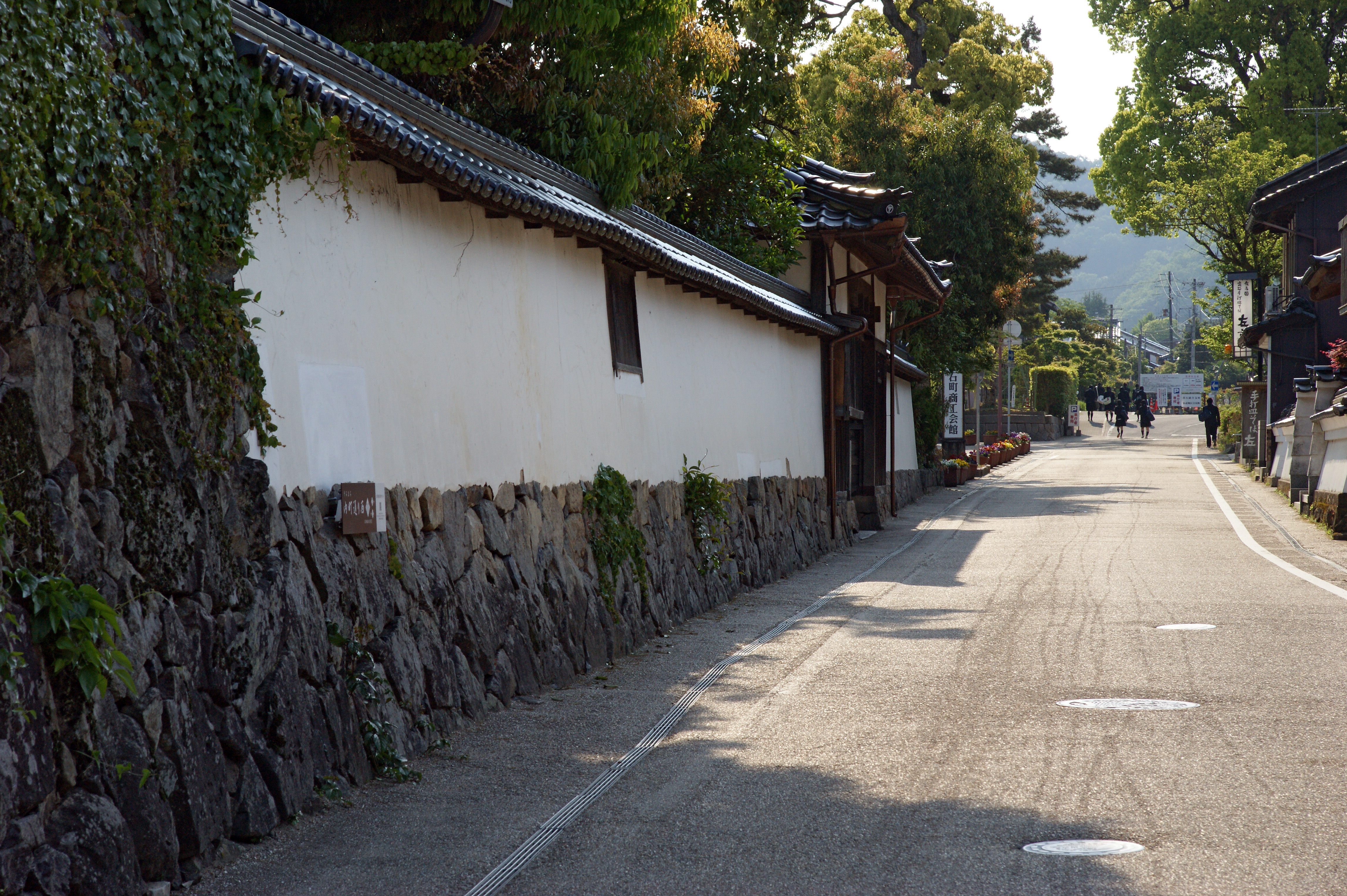 Izushi, Toyooka, Hyogo prefecture, Japan